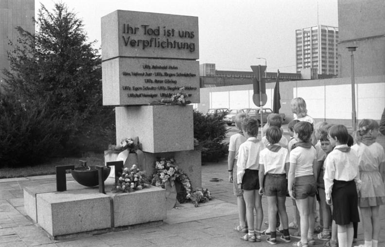 ADN-ZB / Grimm / 13.8.86 / Berlin: Ehrung An der Gedenkstätte für die an der Staatsgrenze zu Berlin (West) gefallenen Soldaten der Grenztruppen der DDR fand eine feierliche Kranzniederlegung anlässlich des 25. Jahrestages der Errichtung des antifaschistischen Schutzwalls statt. Pioniere der Reinhold-Huhn-Oberschule Berlin-Mitte legten Blumen nieder und verharrten in schweigendem Gedenken. Information added by Wikimedia users.Addition: This East German memorial for border guards killed at the Berlin Wall, built in 1973, stood at the corner of Schützenstraße and Jerusalemer Straße in Berlin-Mitte. This was near the place where, in June 1962, border guard Reinhold Huhn was shot to death by Rudolf Müller who was assisting family members trying to escape to West Berlin. Schützenstraße was named after Huhn in 1966 and reverted back to Schützenstraße in 1991. The memorial was demolished in 1994. Müller was convicted of manslaughter in 1999 and received a suspended sentence of one year with probation. On appeal, the Federal Court of Justice of Germany (Bundesgerichtshof) convicted him of murder but upheld the sentence.